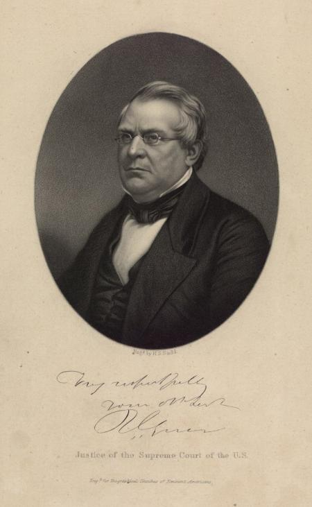 Engraving of Robert Cooper Grier while serving as Justice of the Supreme Court, published in Livingston, John. Portraits of Eminent Americans Now Living: With Biographical And Historical Memoirs of Their Lives And Actions. New York: Cornish, Lamport & Co., 1853-54.